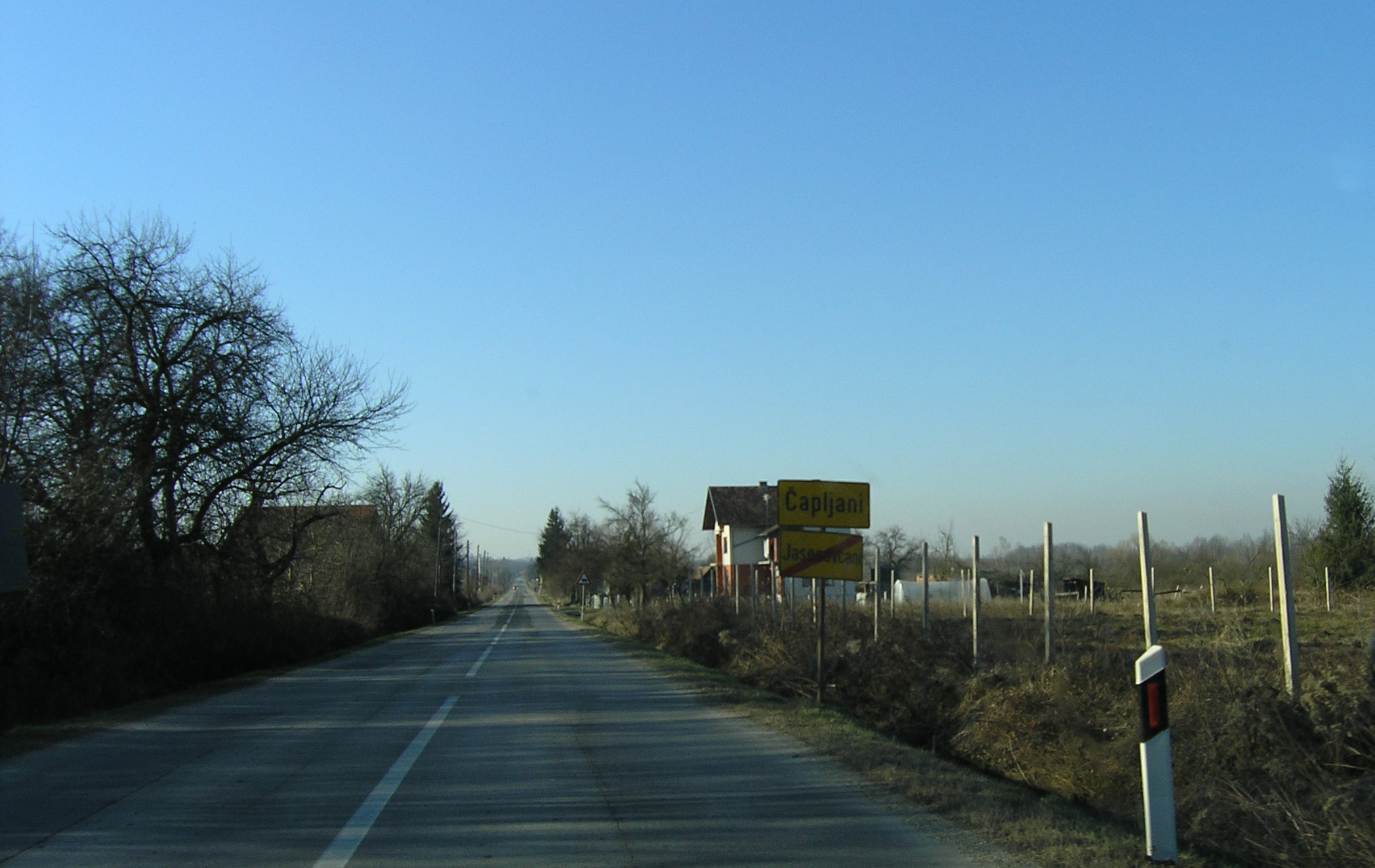 Village Čapljani, Sisak-moslavina county, Croatia.